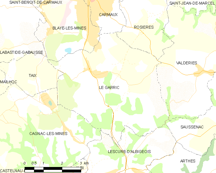 Map of French municipality Le Garric